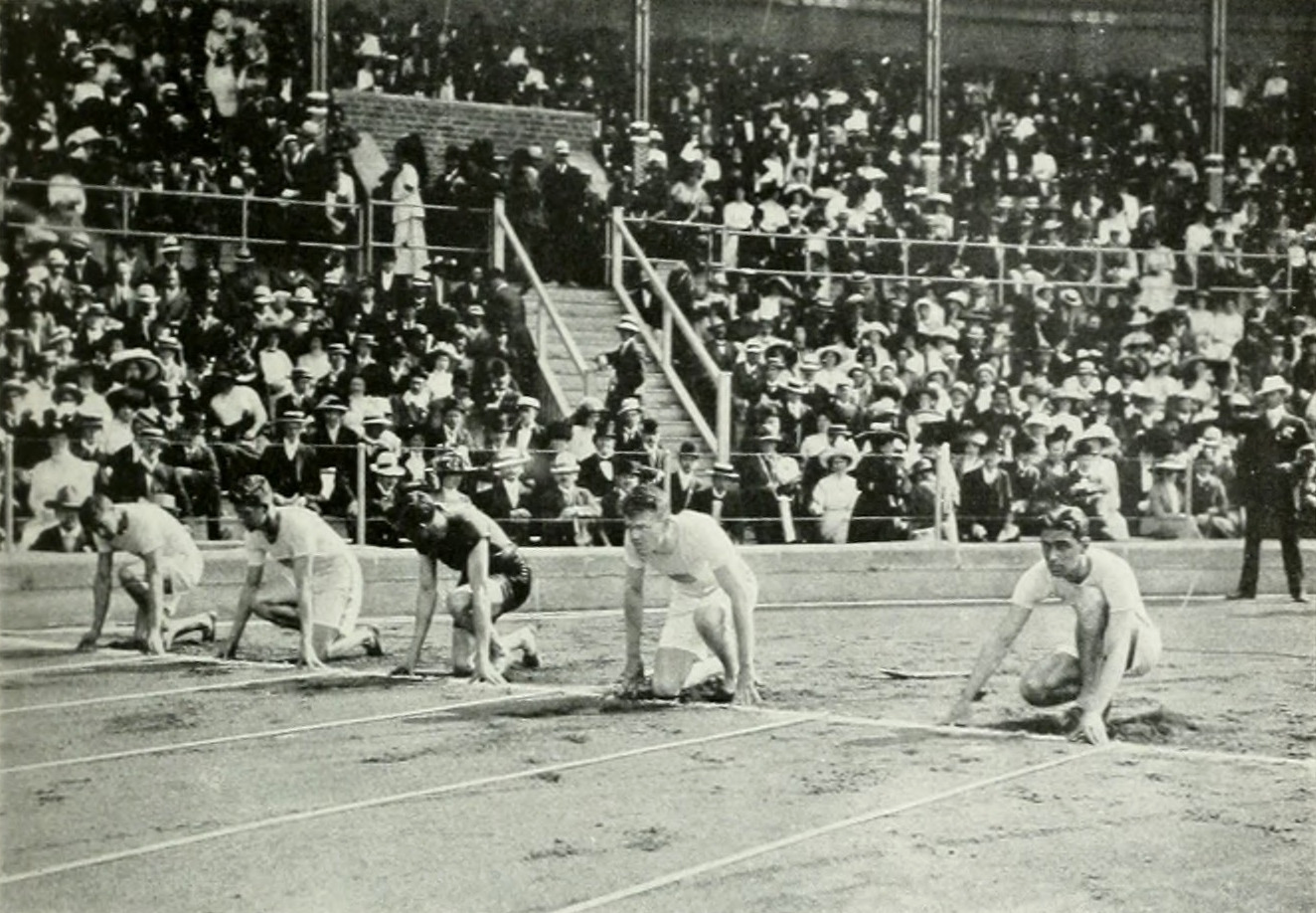 The final of the men's 100 metre competition at the 1912 Summer Olympics